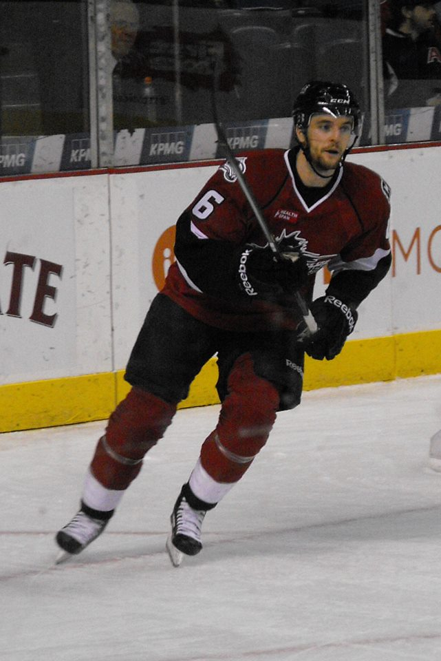 Taken 11/30/2013 @ Copps Coliseum, Hamilton, ON